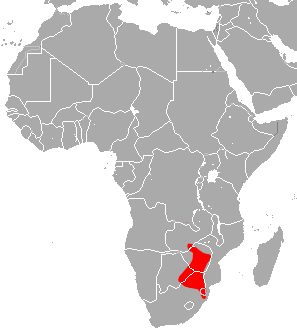 Percival's Trident Bat (Cloeotis percivali) range